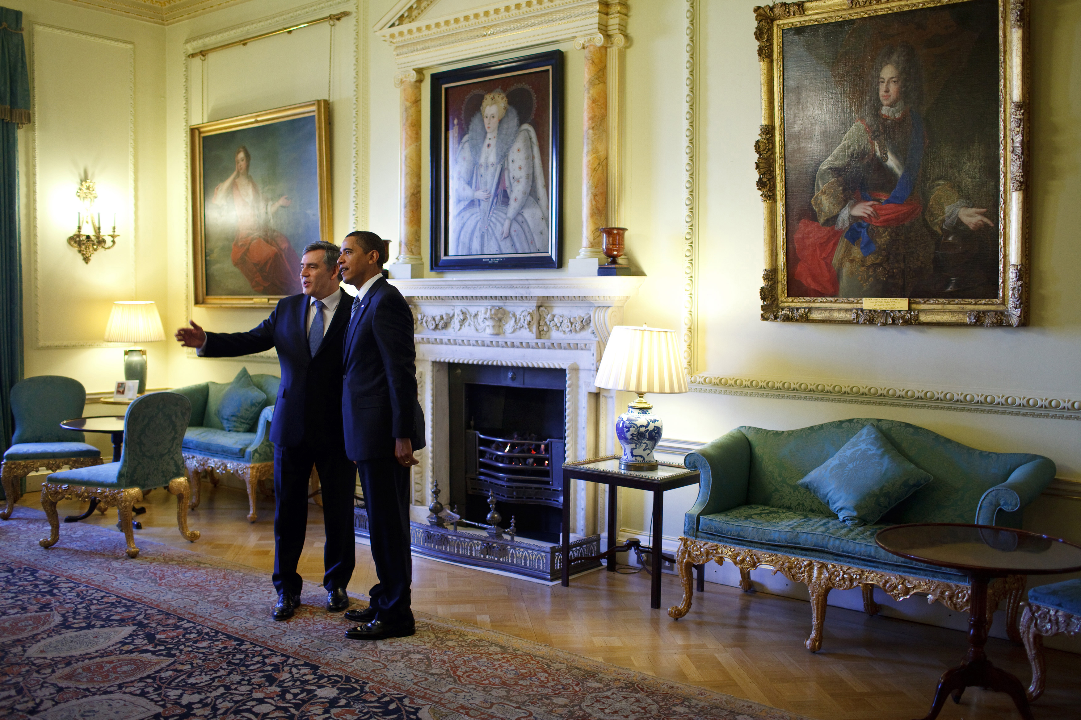 President Barack Obama is welcomed to 10 Downing Street in London by British Prime Minister Gordon Brown, April 1, 2009. Official White House Photo by Pete Souza